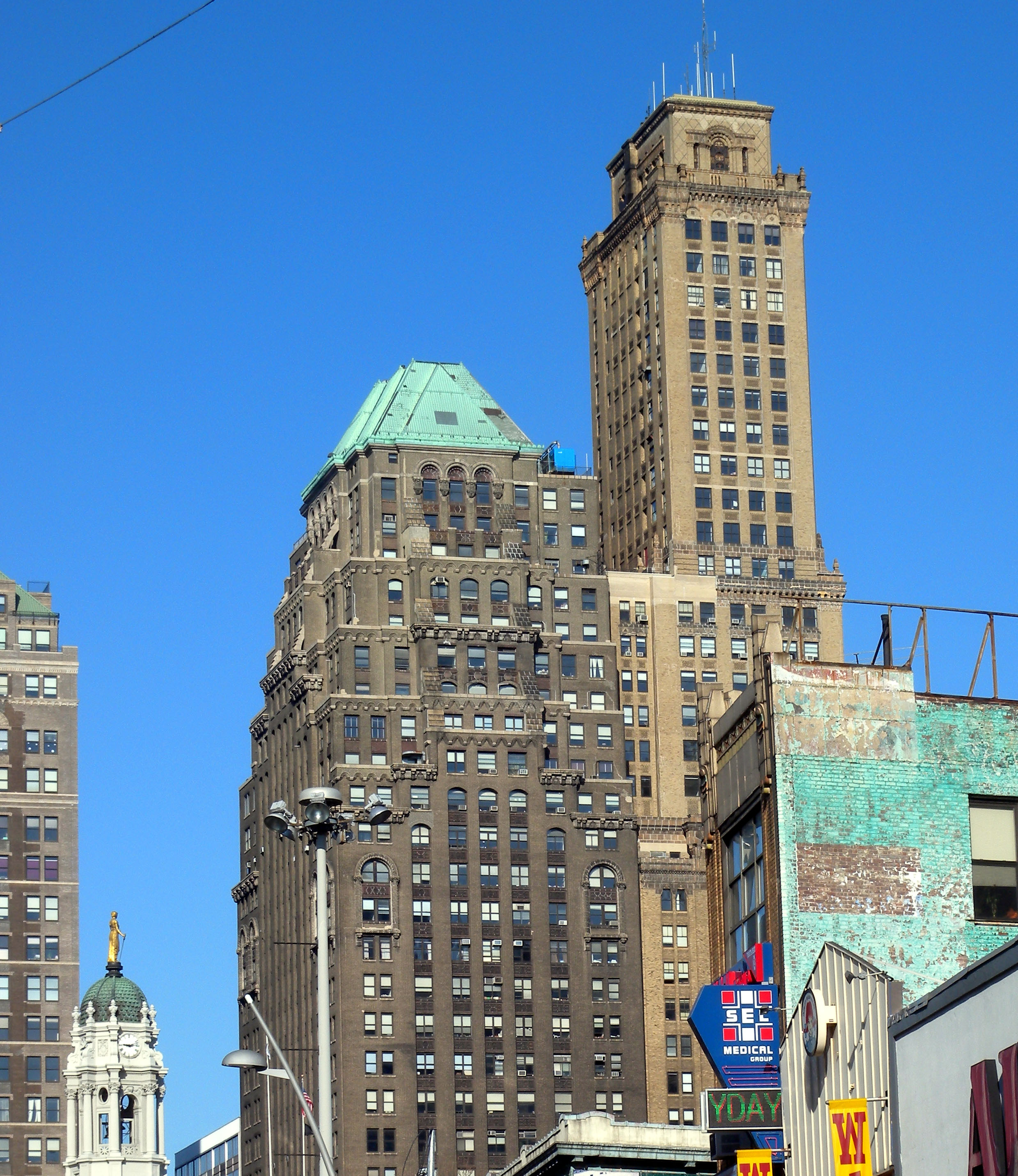 Looking west at the Montague-Court building (taller, right) and 179 Remsen Street on a sunny morning.